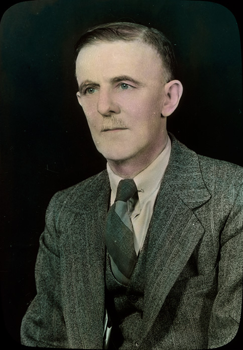 Colourized studio portrait of Diamond Jenness